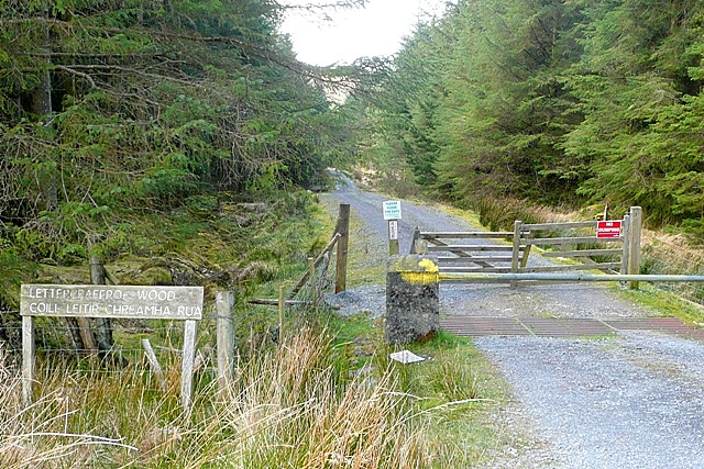 Coill Leitir Creamha Rua (Lettercraffroe Wood) The forests managed by Coillte in this area extend to the west of the road between Rós an Mhíl (Rossaveel) and Uachtar Ard (Oughterard). Unfortunately this access track was closed to vehicles.